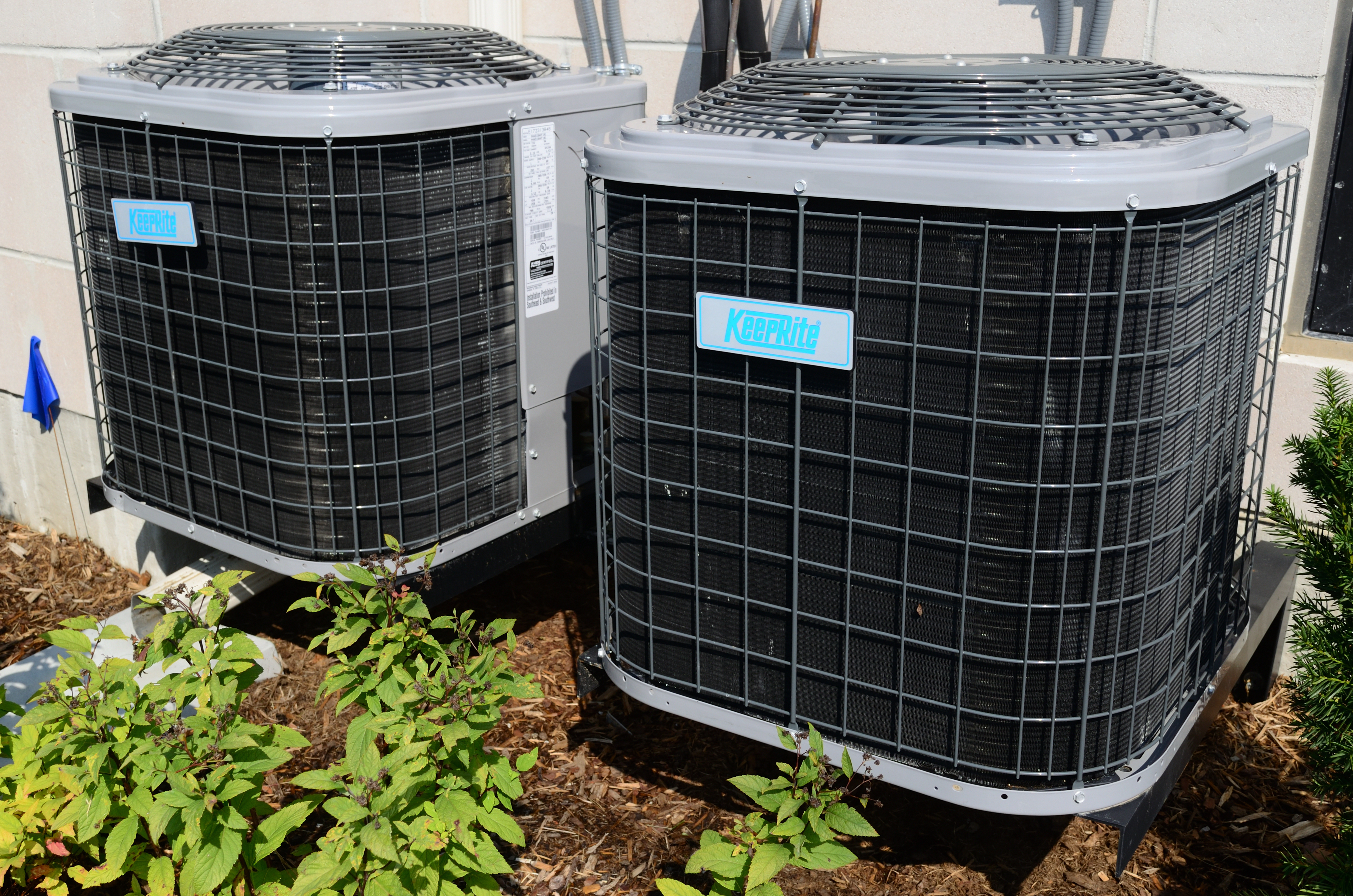 An air conditioner